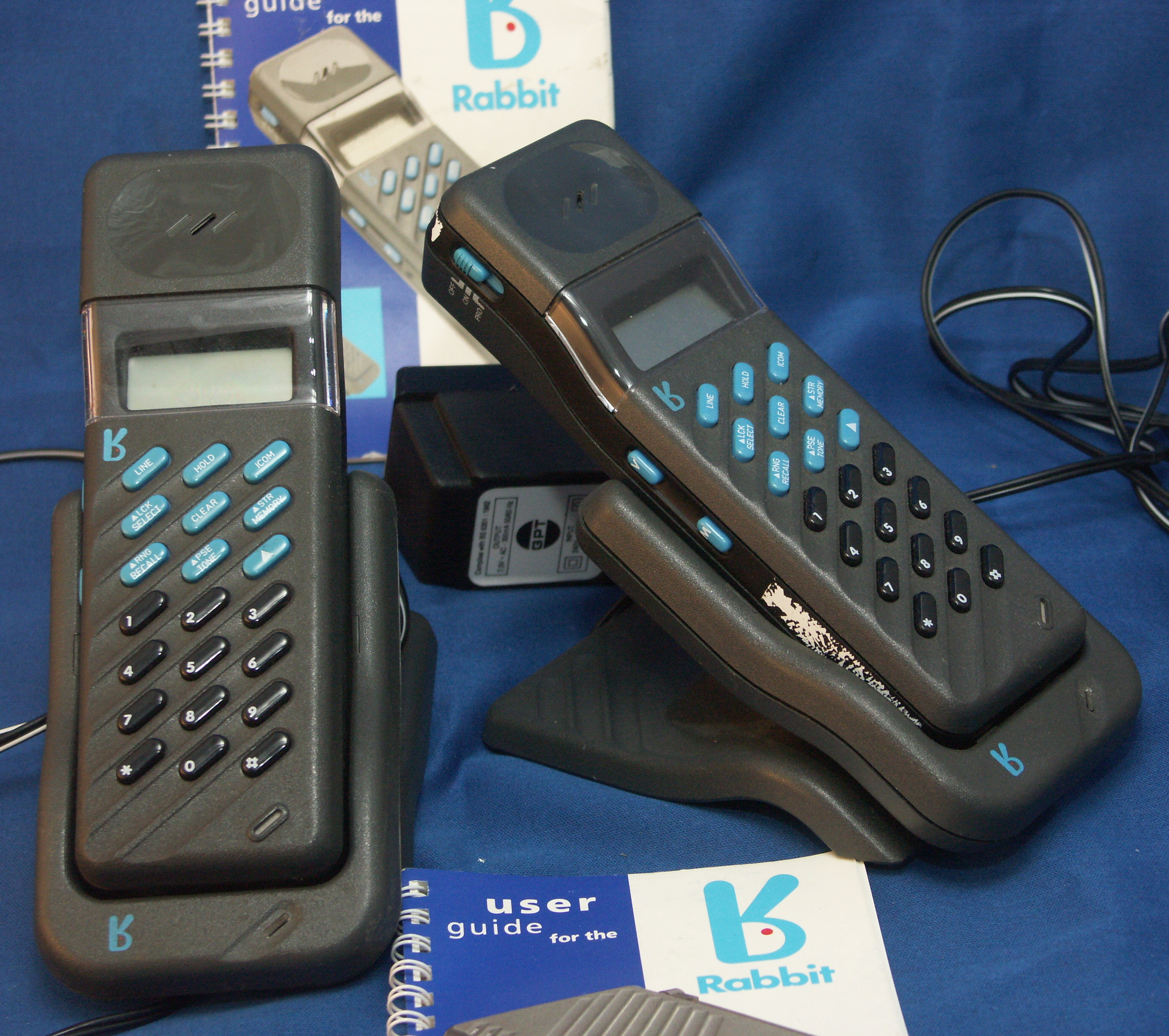 Rabbit CT2 cordless telephones.